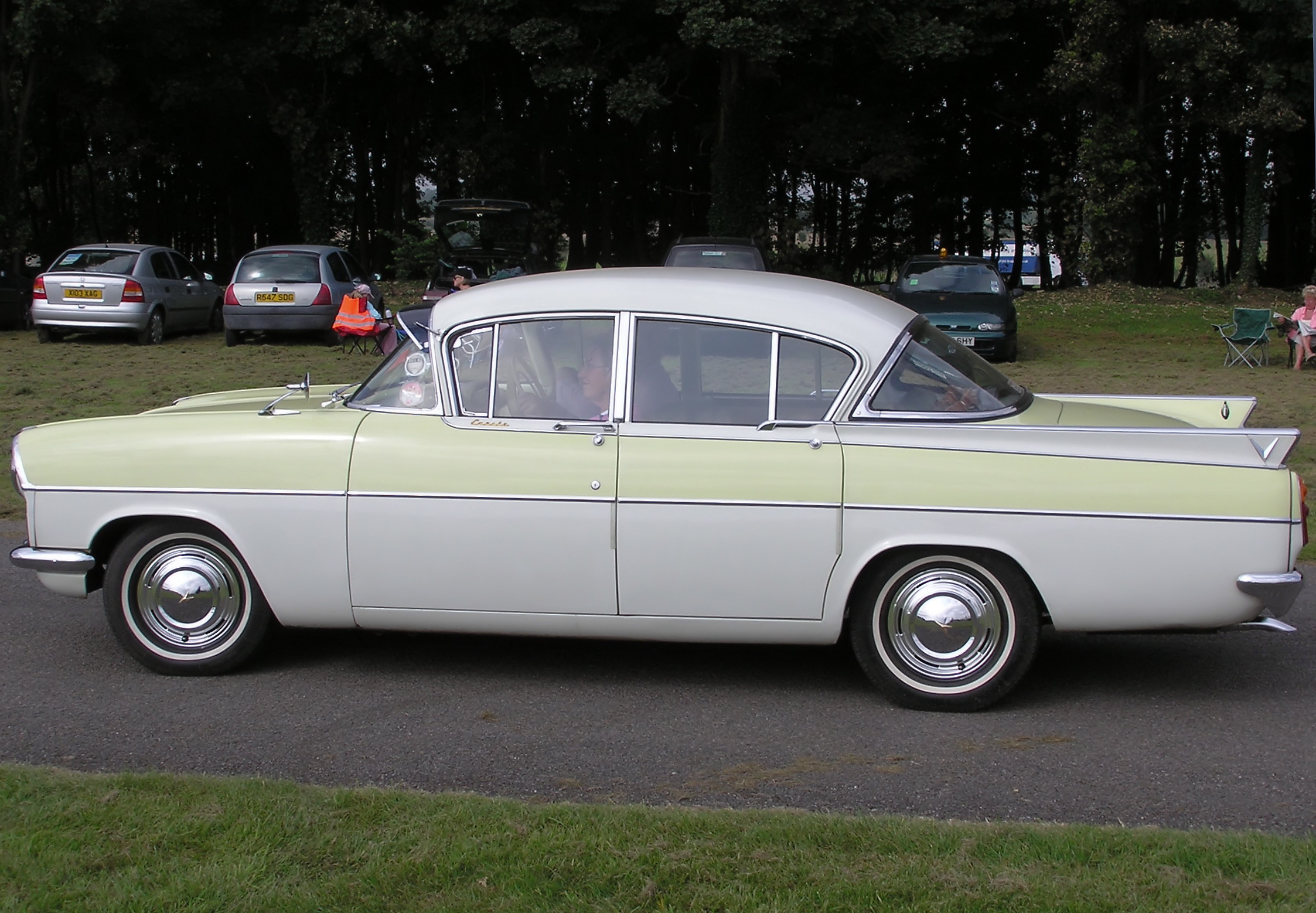 Vauxhall Cresta PA car (year unknown) seen at Kemble Airport Open Day, Wiltshire, England.